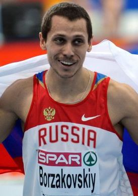 Yuriy Borzakovskiy at the European Athletics Indoor Championships 2009 in Turin